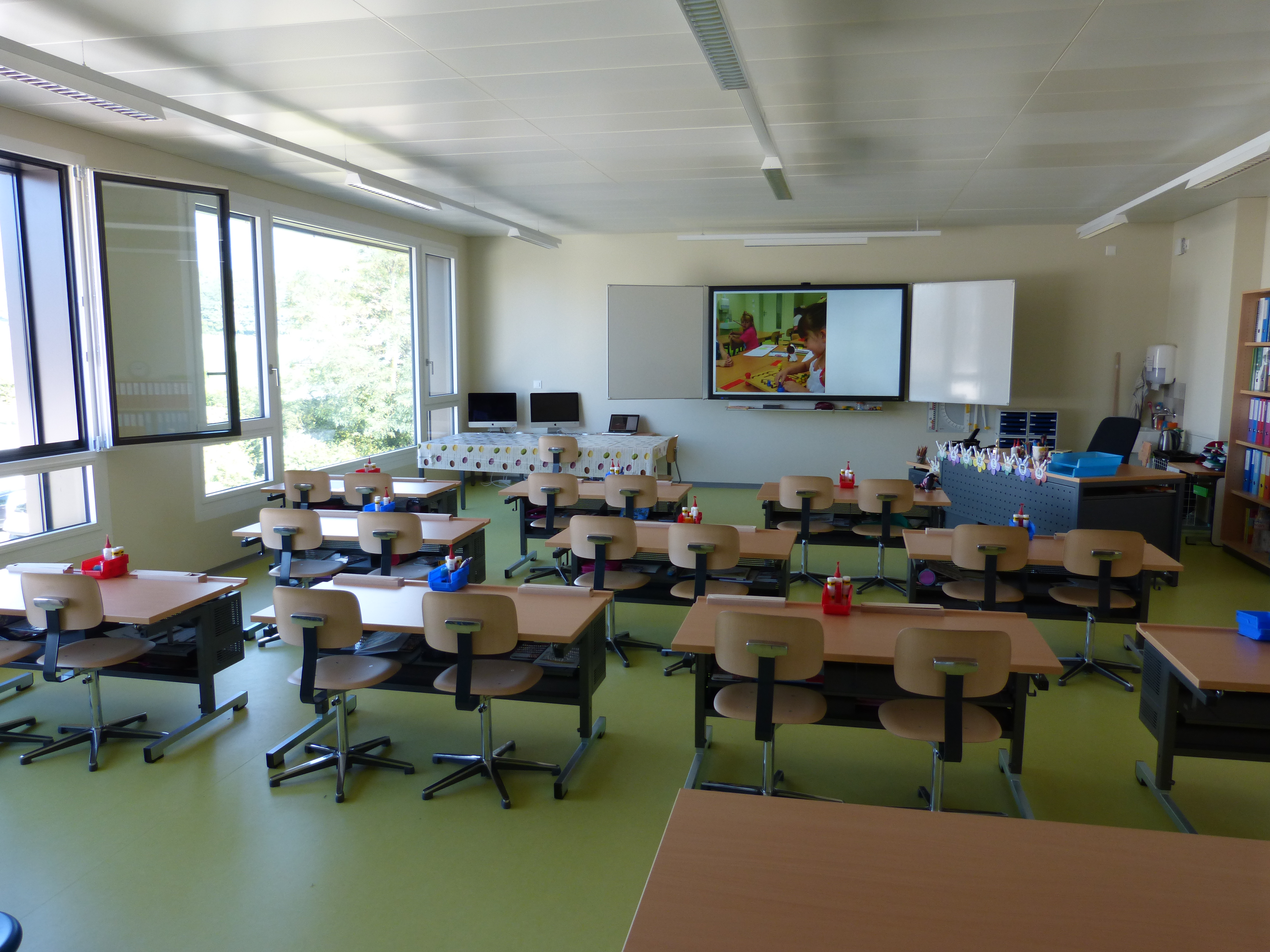 Classroom of 6-7 years old students, Chantemerle school, Orbe. "Blackboard" consists of an Apple TV.